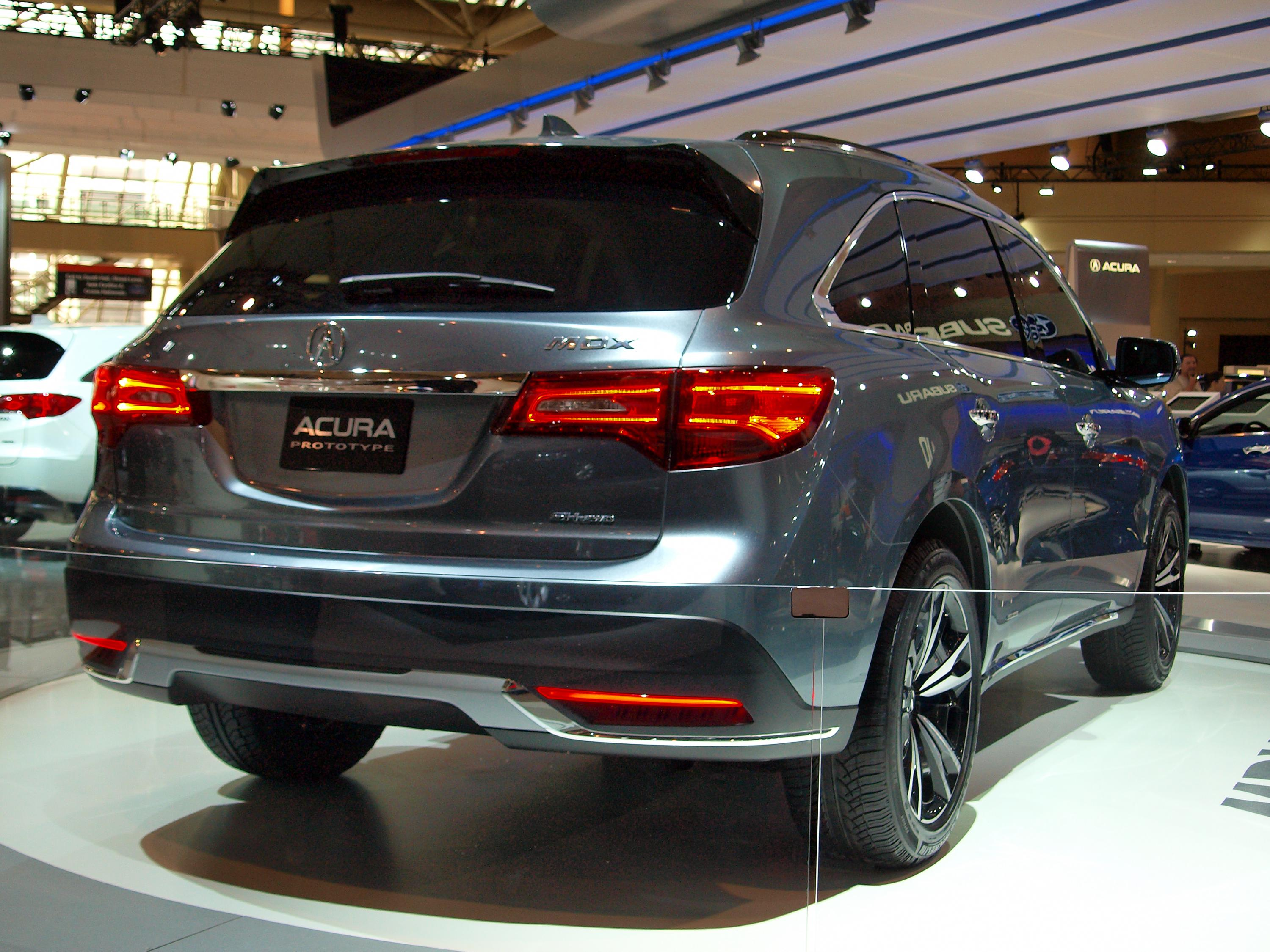 Now this is one nice SUV. I like the sharp lines, LED lights and the wheels, Good job Acura!